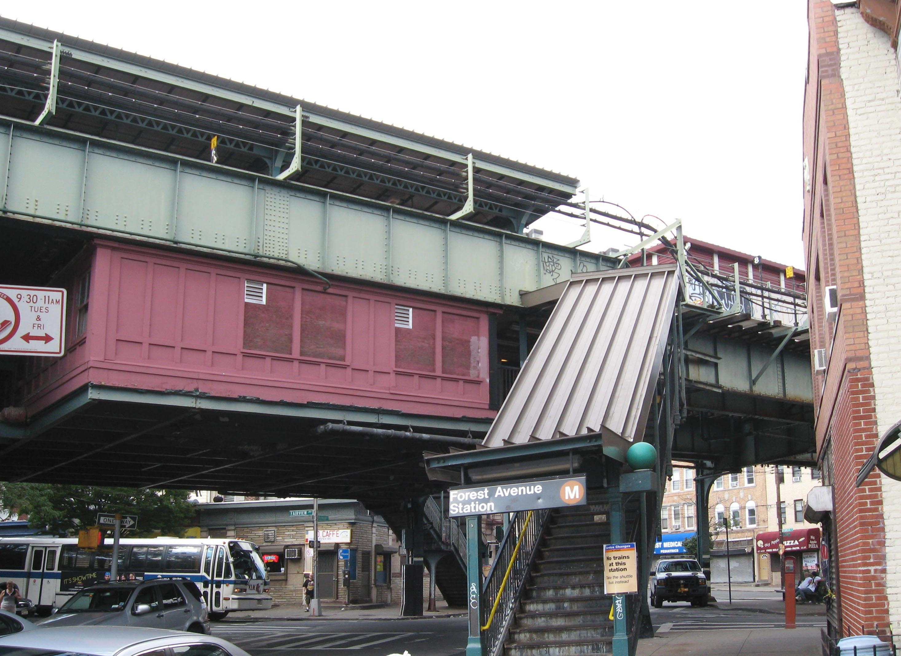 Looking northeast along Putnam Avenue in Ridgewood at Forest Avenue (BMT Myrtle Avenue Line) on a mostly cloudy afternoon with the line temporarily out of service. ZIP 11385.